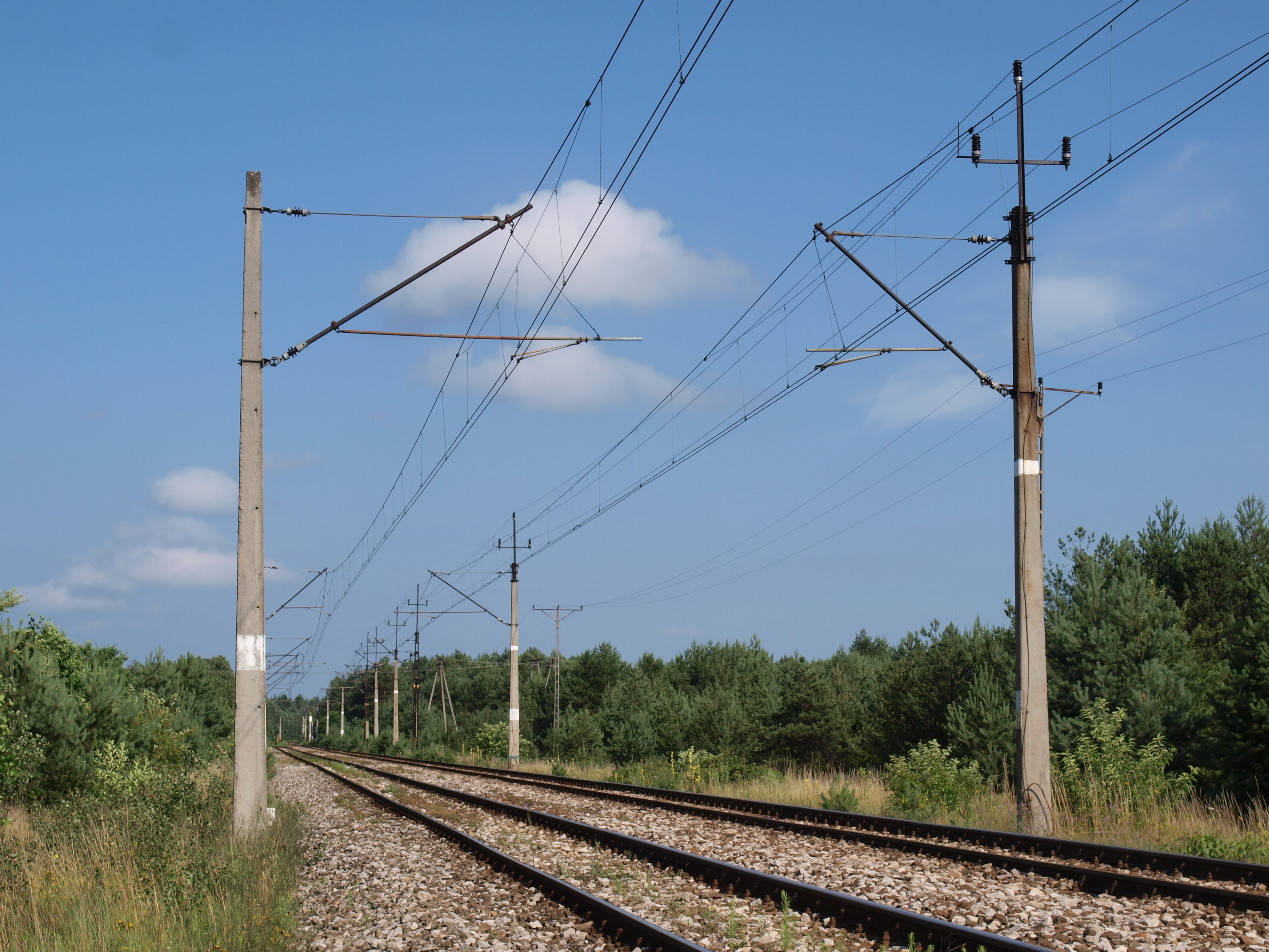 Polish railway line 68 in forests near Rudnik nad Sanem.